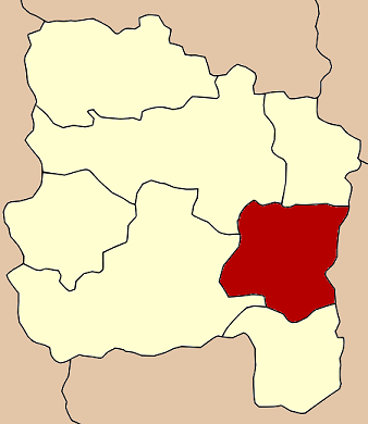 Map of Ang Thong province, Thailand, highlighting Amphoe Mueang Ang Thong.